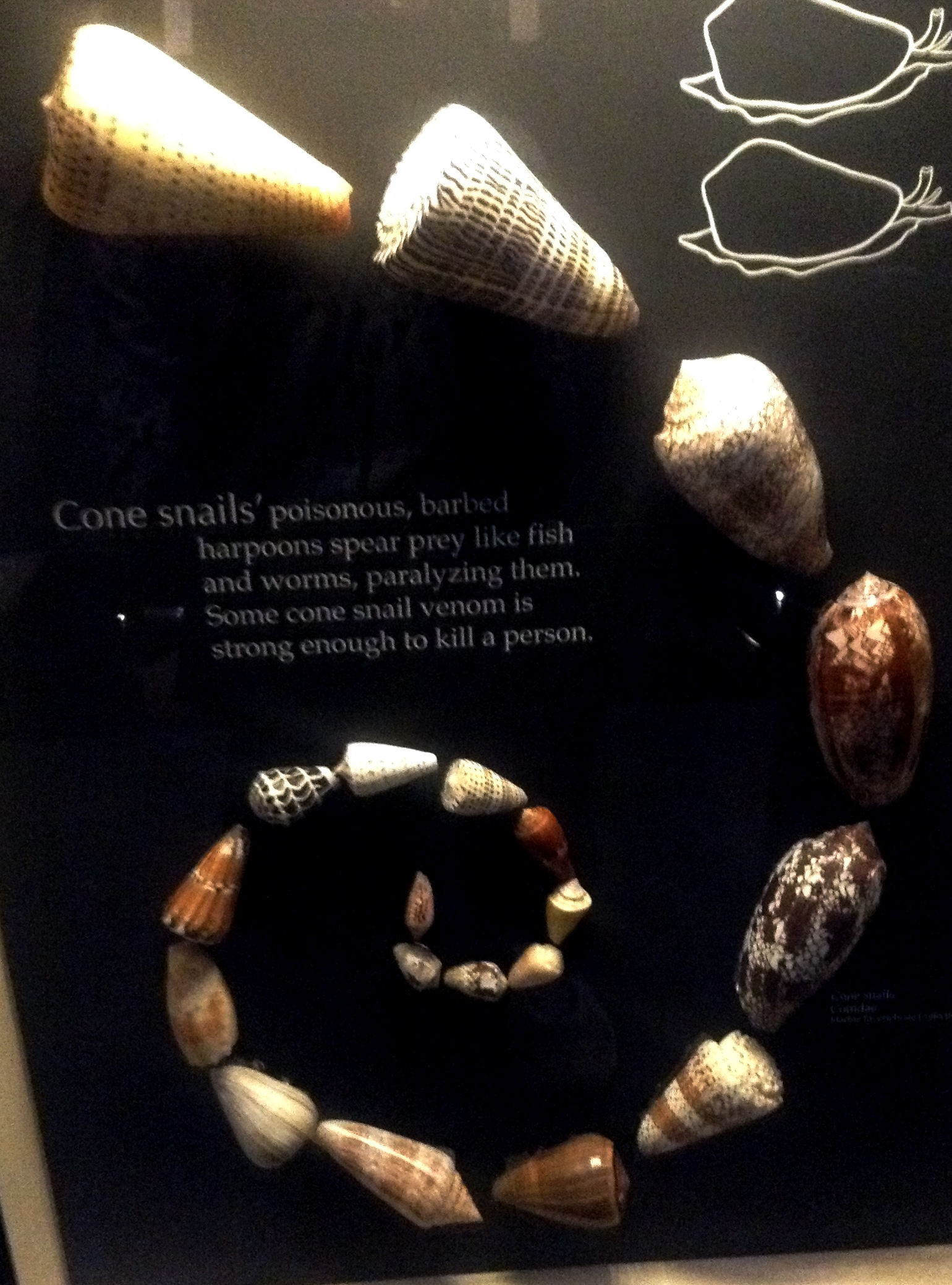 Beaty Biodiversity Museum LocationVancouver, British Columbia, CanadaCoordinates49° 15′ 48.96″ N, 123° 15′ 05.04″ W WebsiteBeaty Biodiversity Museum